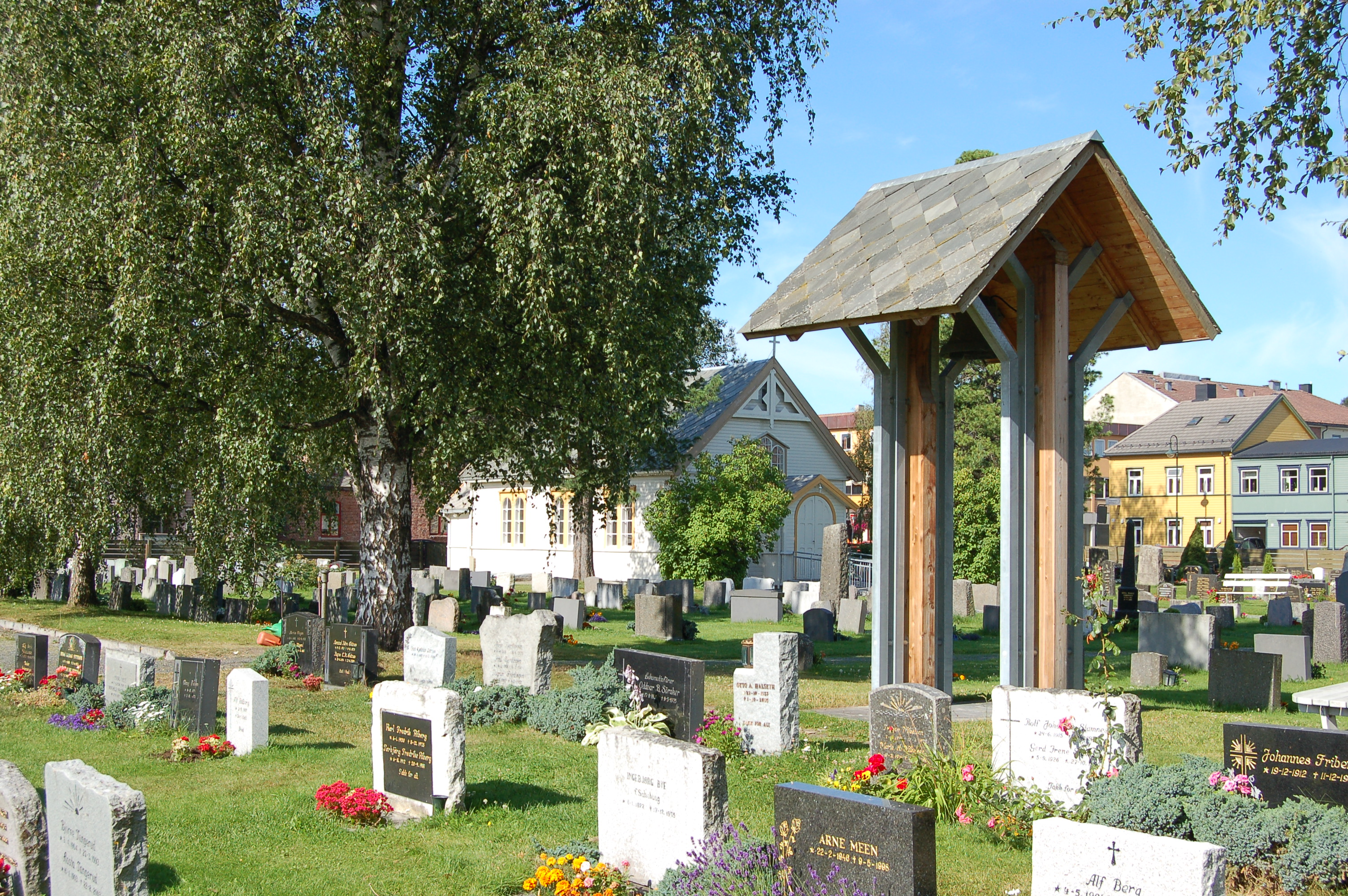 Levanger churchyard